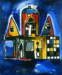 "Castle In The Air" 1974. Zimmerli Art Museum, New Jersey